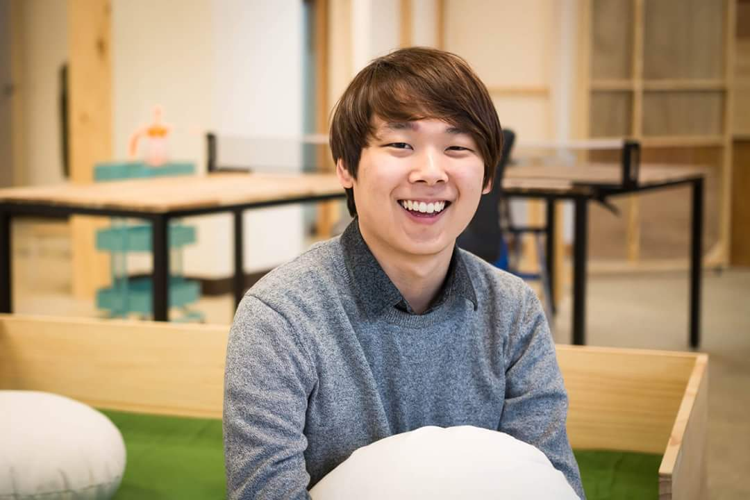 Photo of Jinu Baek